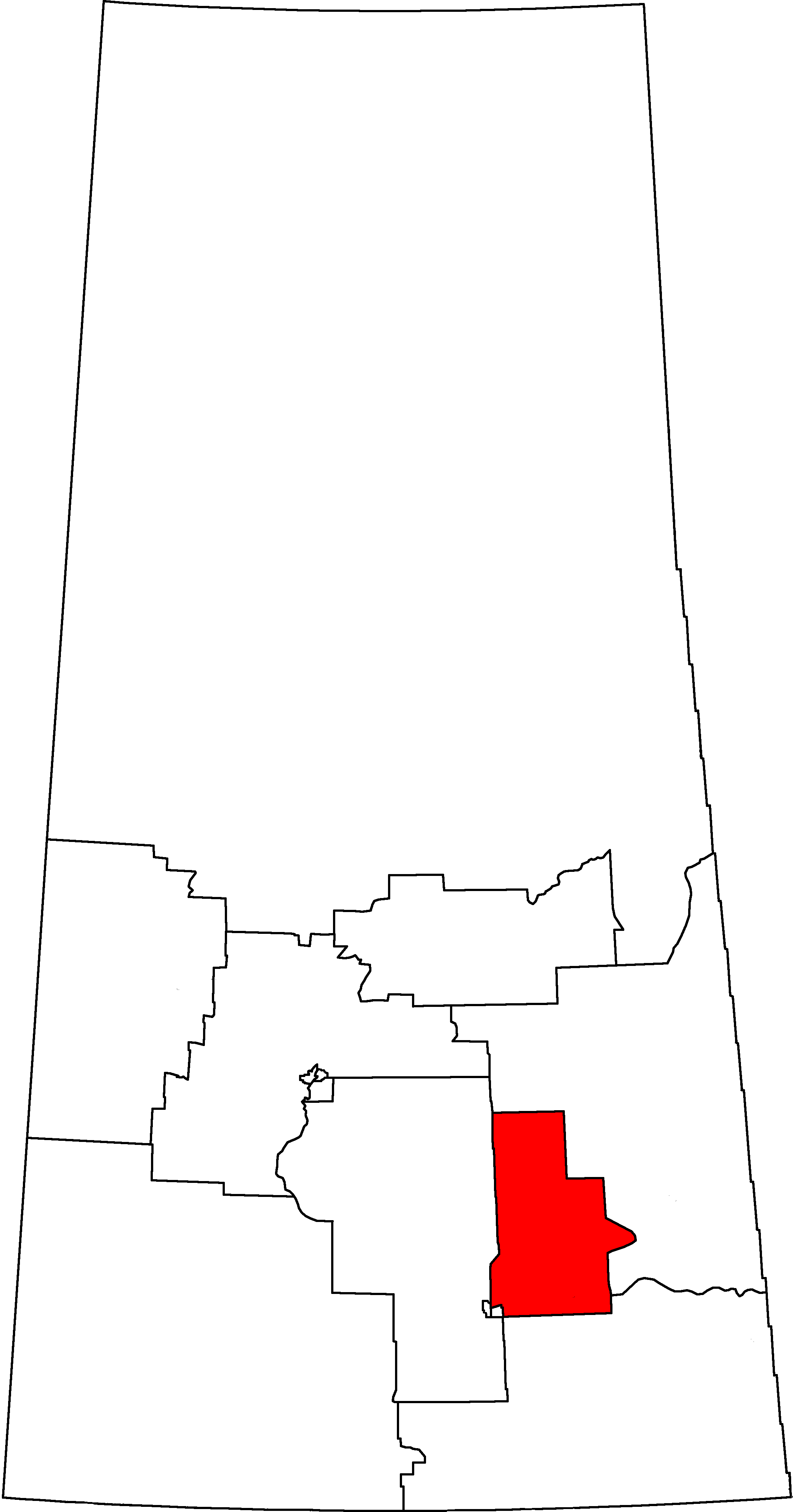 Federal Electoral District in Saskatchewan, Canada as of the 2013 Representation Order.